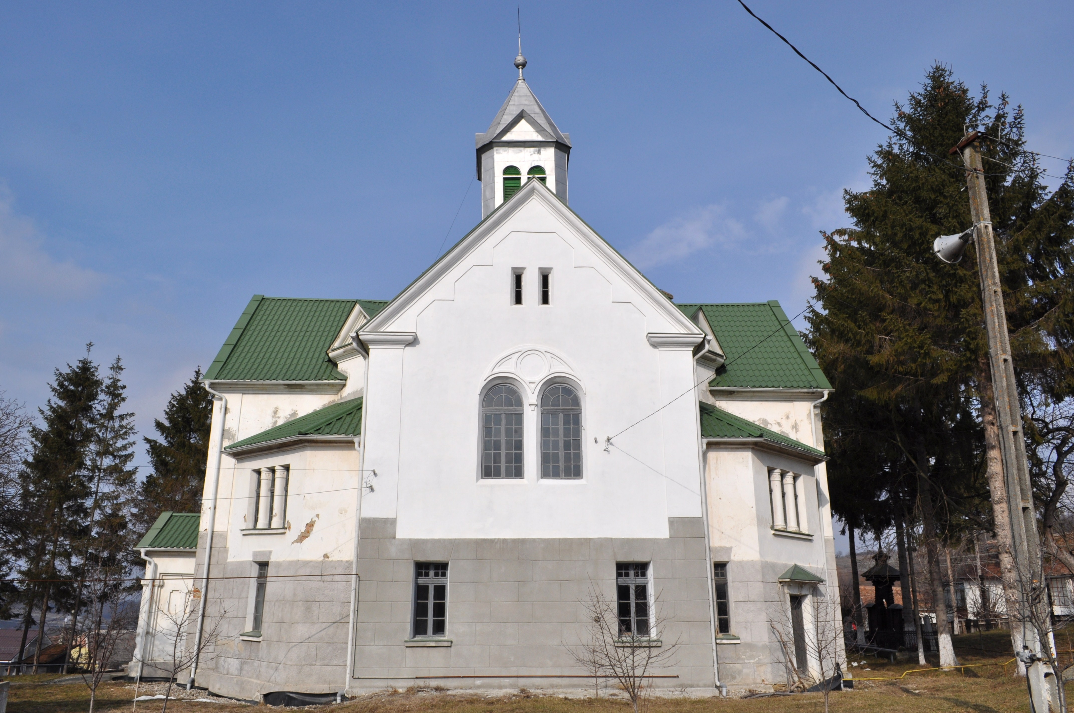 Deleni, Mureș county, Romania